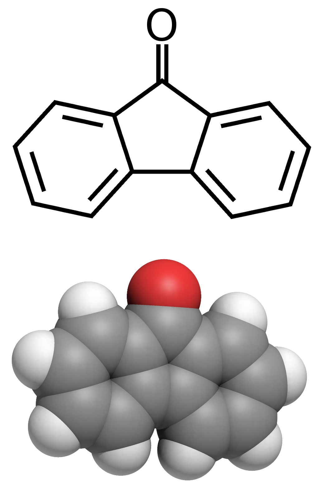 3D Model of a fluorenona molecule. Picture generated using QuteMol.